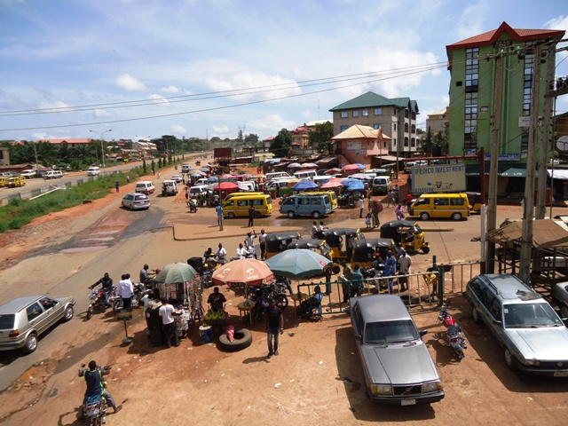 Junction of Onitsha-Enugu Expressway/Arthur Eze Street, Awka I, the copyright holder of this work, hereby release it into the public domain. This applies worldwide. In case this is not legally possible, I grant any entity the right to use this work for any purpose, without any conditions, unless such conditions are required by law.